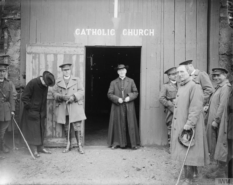 The Official Visits To the Western Front, 1914-1918 Cardinal Francis Bourne, the Head of the Catholic Church in England and Wales, visits a barn at Ervillers used as a Catholic Church, 27 October 1917. The 16th Irish Division HQ.